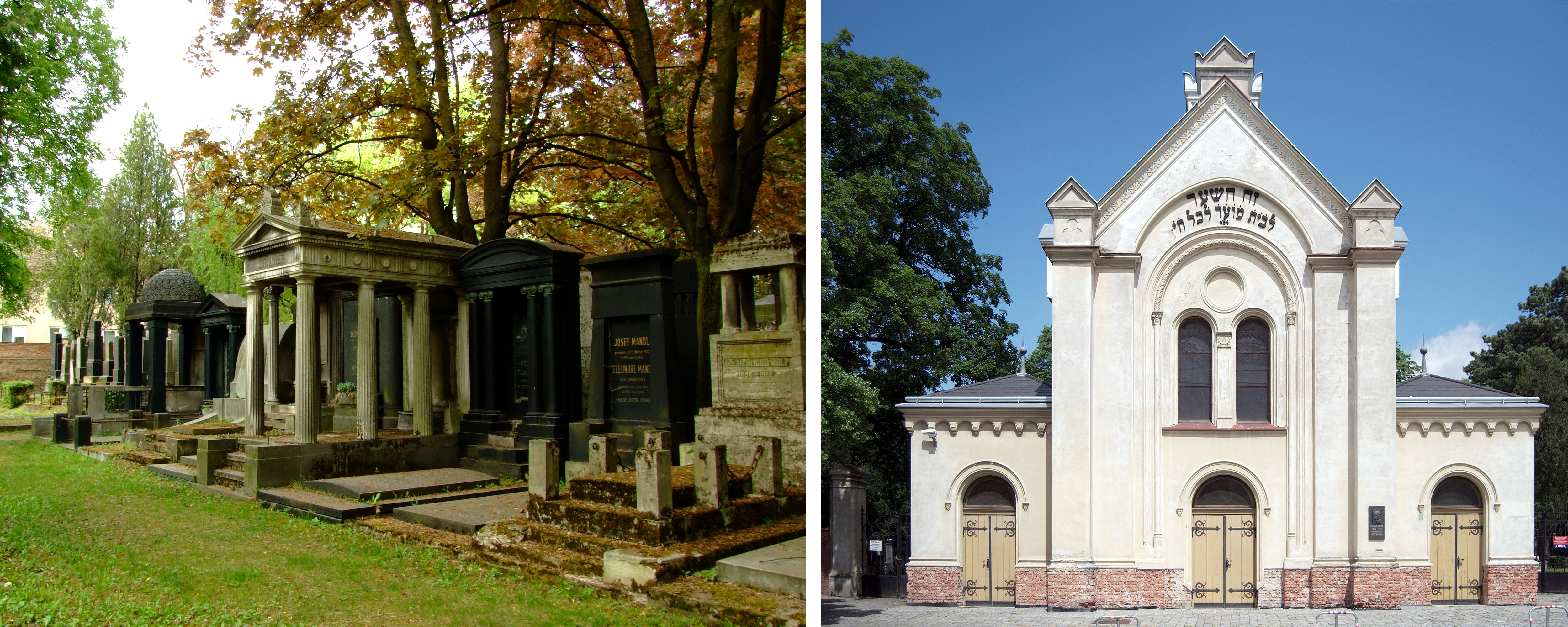 Jewish cemetery in Brno-Židenice